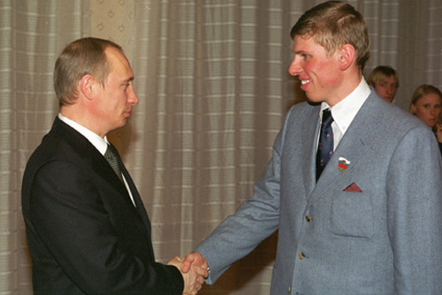 NOVO-OGARYOVO. President Vladimir Putin meeting with Russian Olympic team athletes and trainers. Mr Putin with Olympic champion skier Mikhail Ivanov.